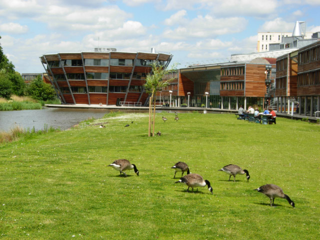 Jubilee Campus, Nottingham University. The Jubilee Campus is physically separate from the main Nottingham University campus and accommodates a number of the university's departments together with student accommodation. The distinctive circular building is the Djanogly Learning Resource Centre (ie. library); Sir Harry Djanogly, a Nottinghamshire industrialist and educational benefactor, donated over £2 million towards the campus project.